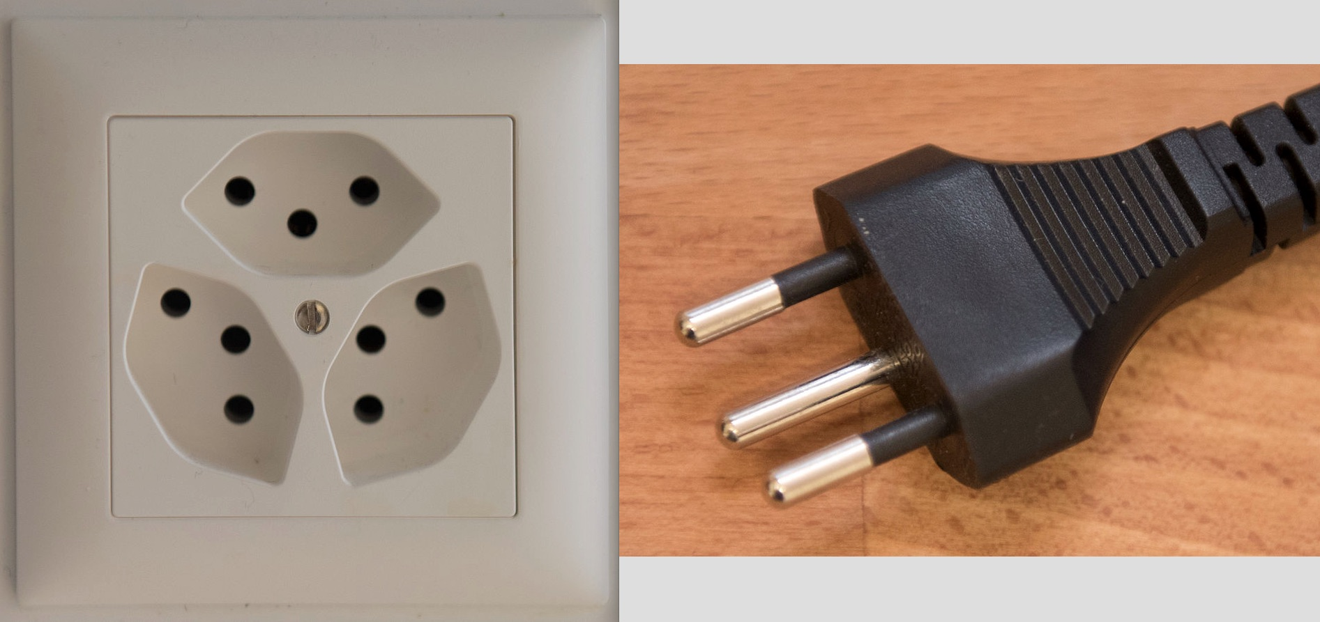 1?Swiss Typ 13 socket on the left. On the right: Swiss Typ 12 plug (according the norm SEV 1011:2009) with partially sleeved pins.